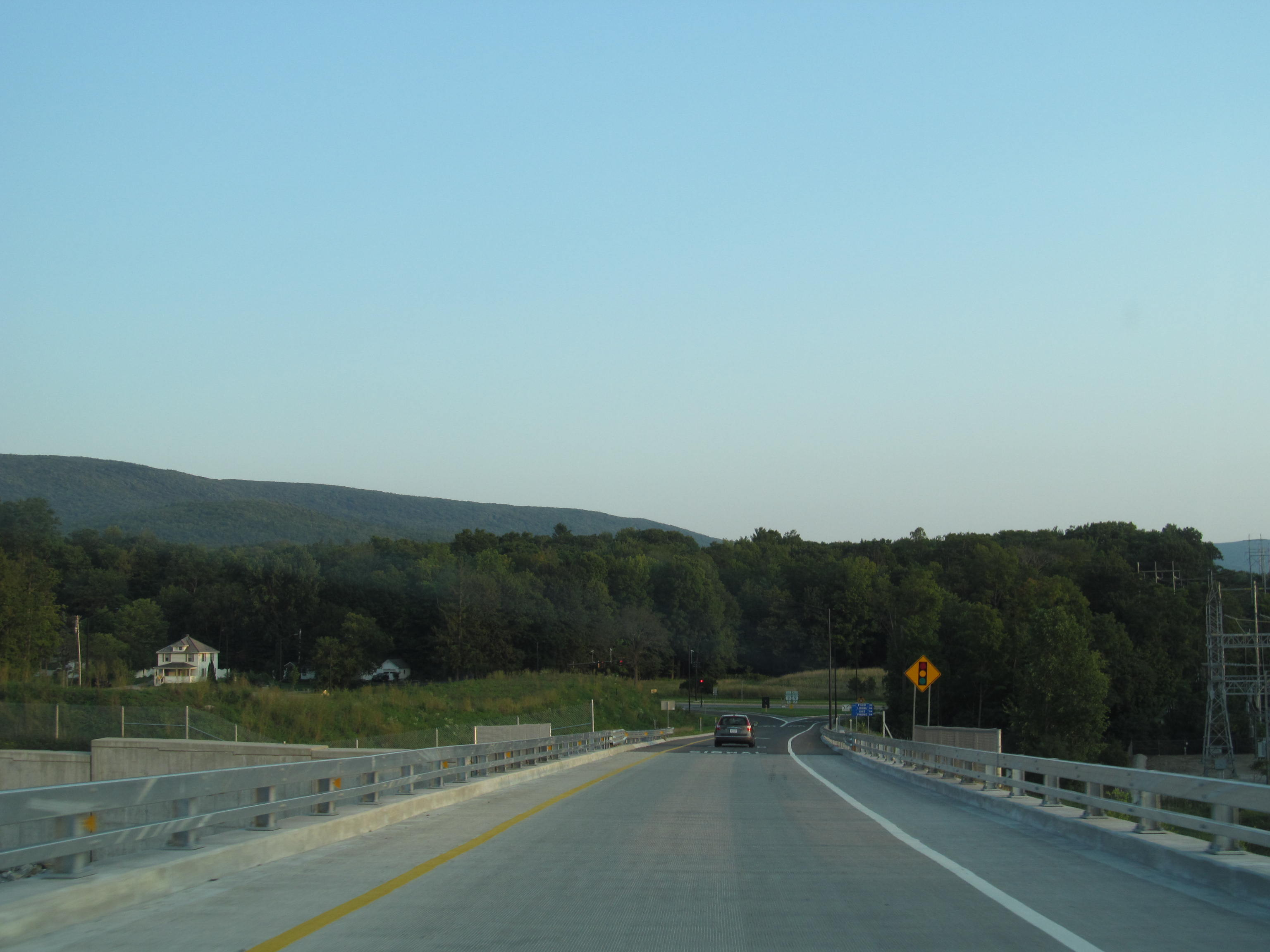 Vermont Route 279 eastbound at Vermont Route 9 in Bennington.